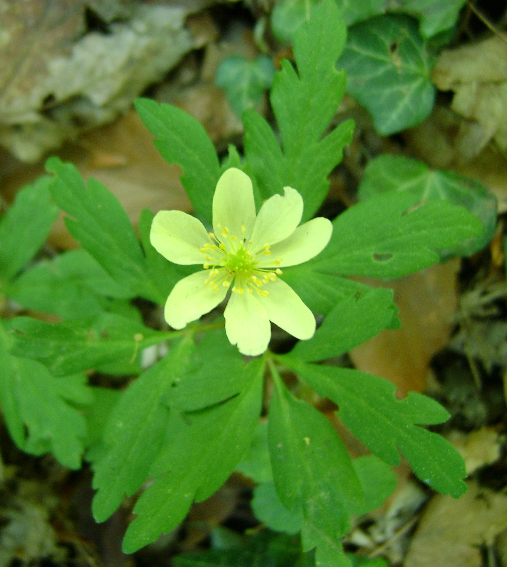 Anemone ×lipsiensis (Anemone nemorosa × Anemone ranunculoides). Forest near Pezino (NW Poland).